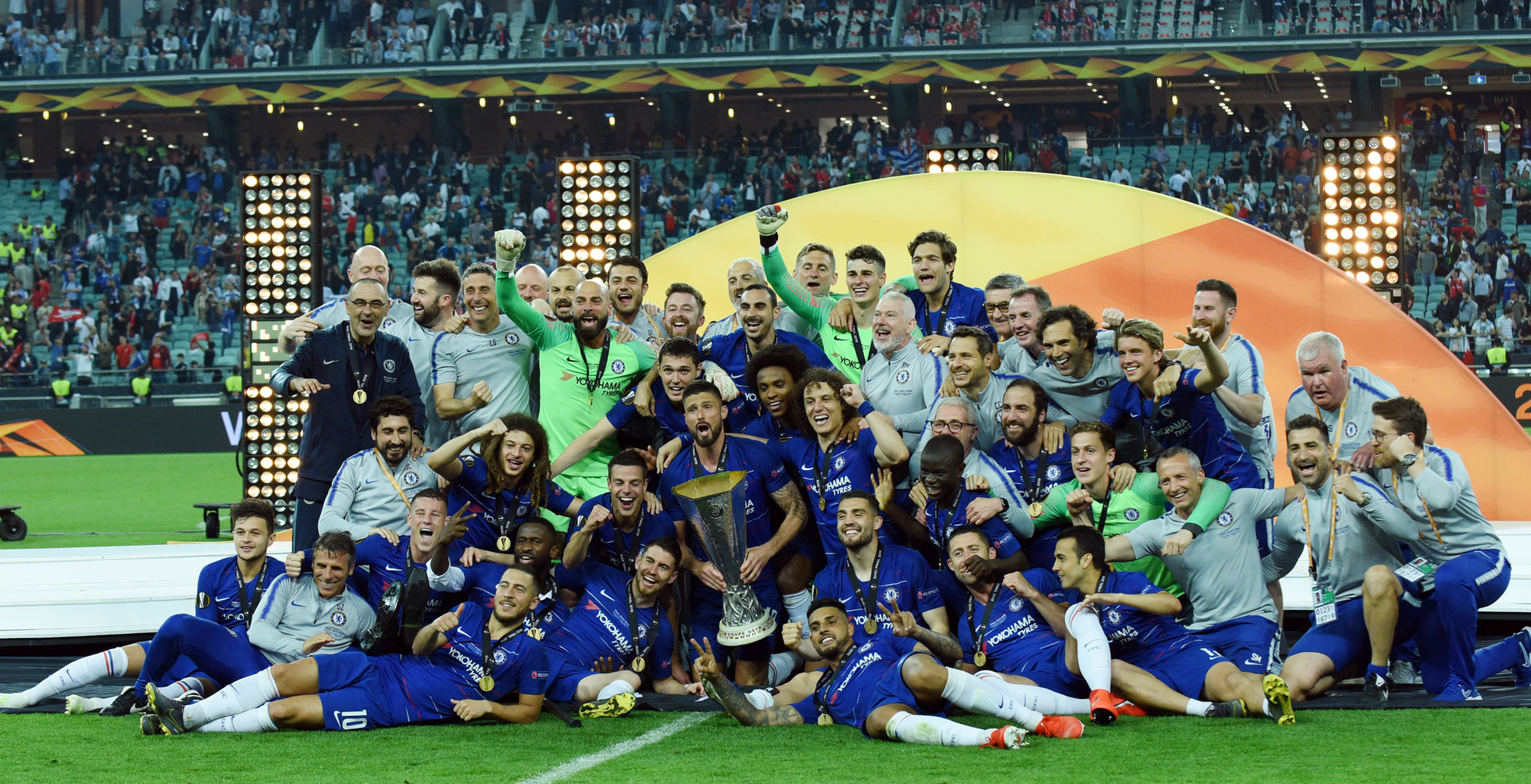 Chelsea won UEFA Europa League final at Olympic Stadium and President Ilham Aliyev watched the final match